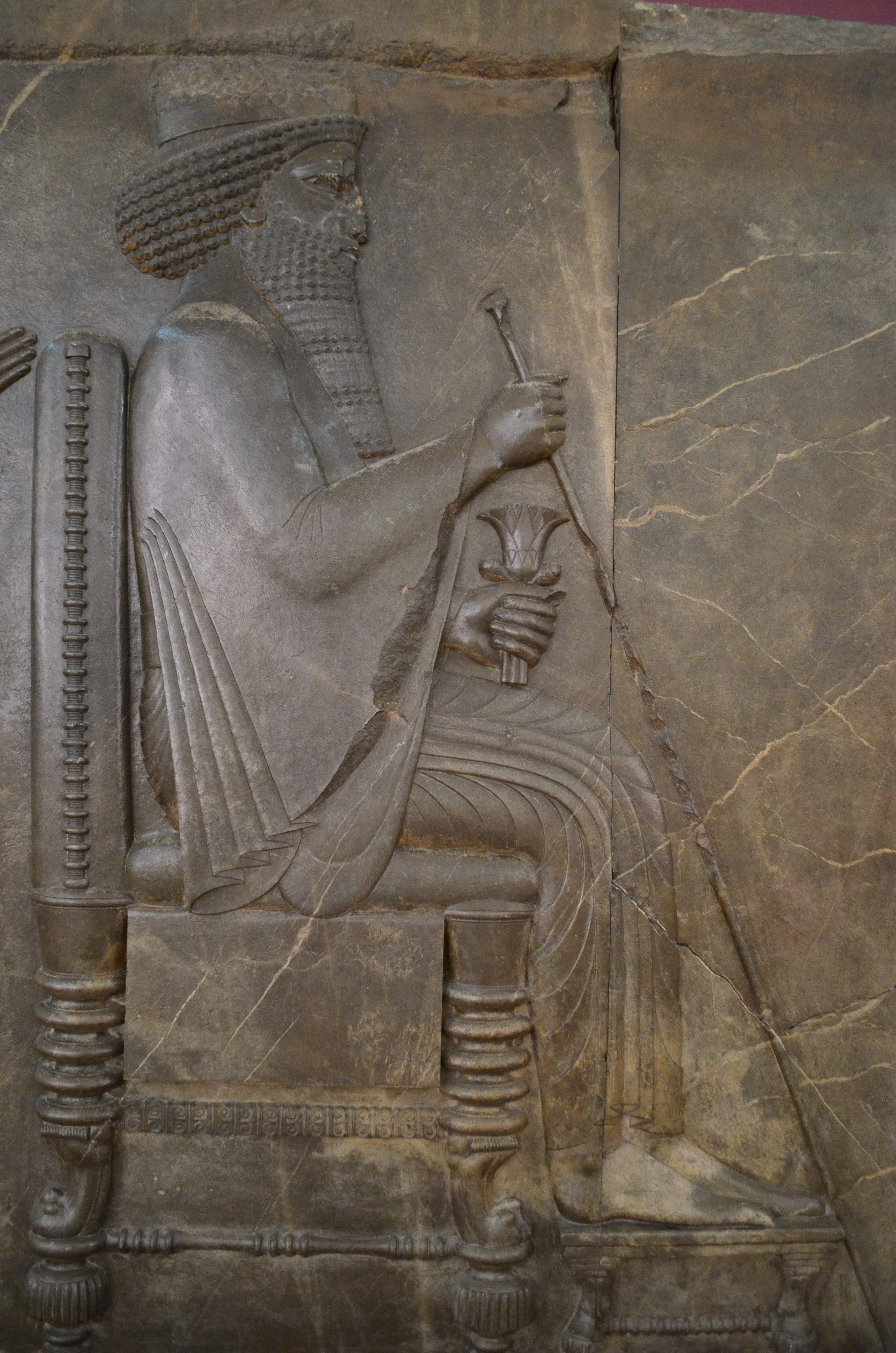 National Museum of Iran National Museum of Iran Native name